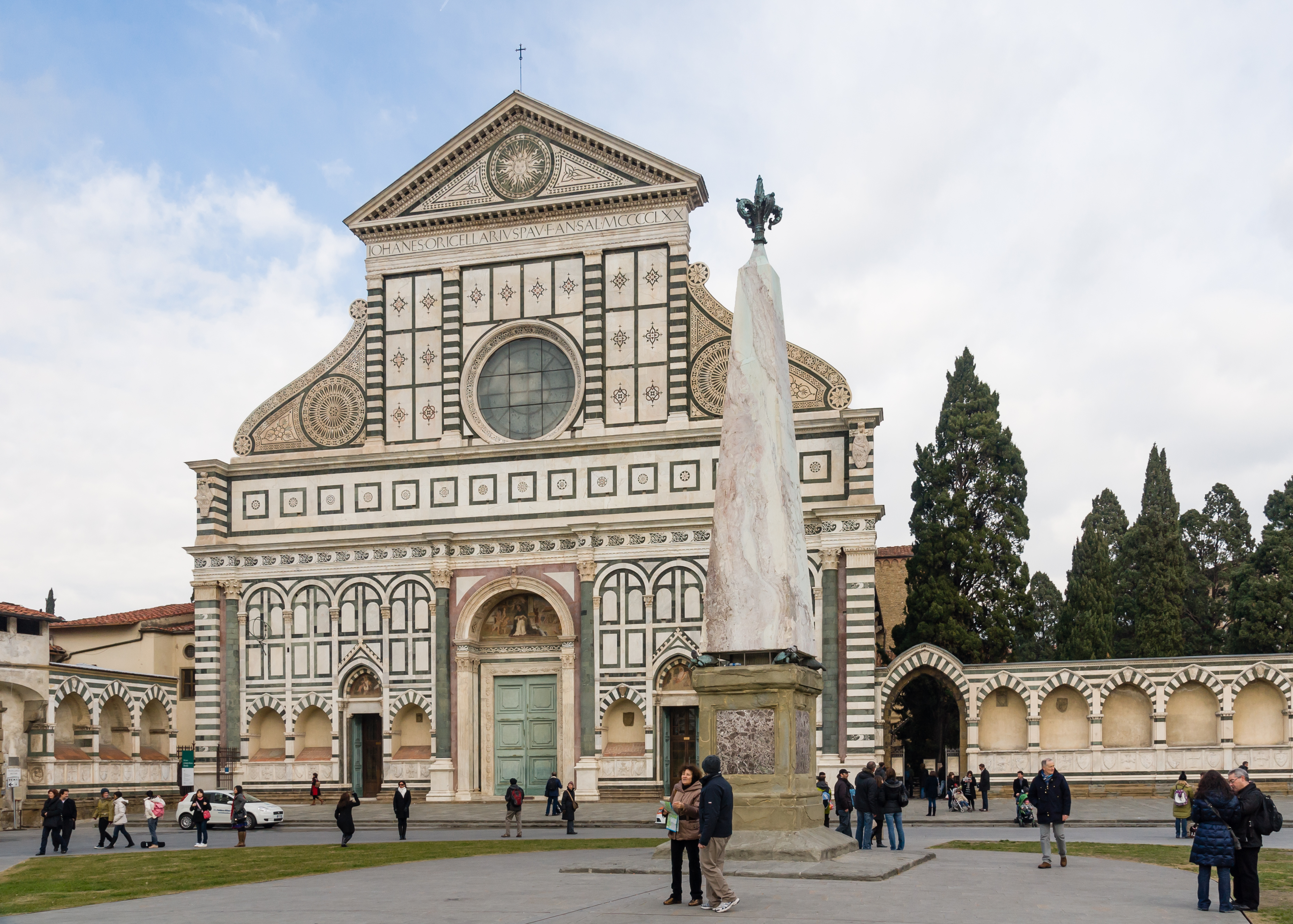 Florence, Italy: Exterior view of Santa Maria Novella